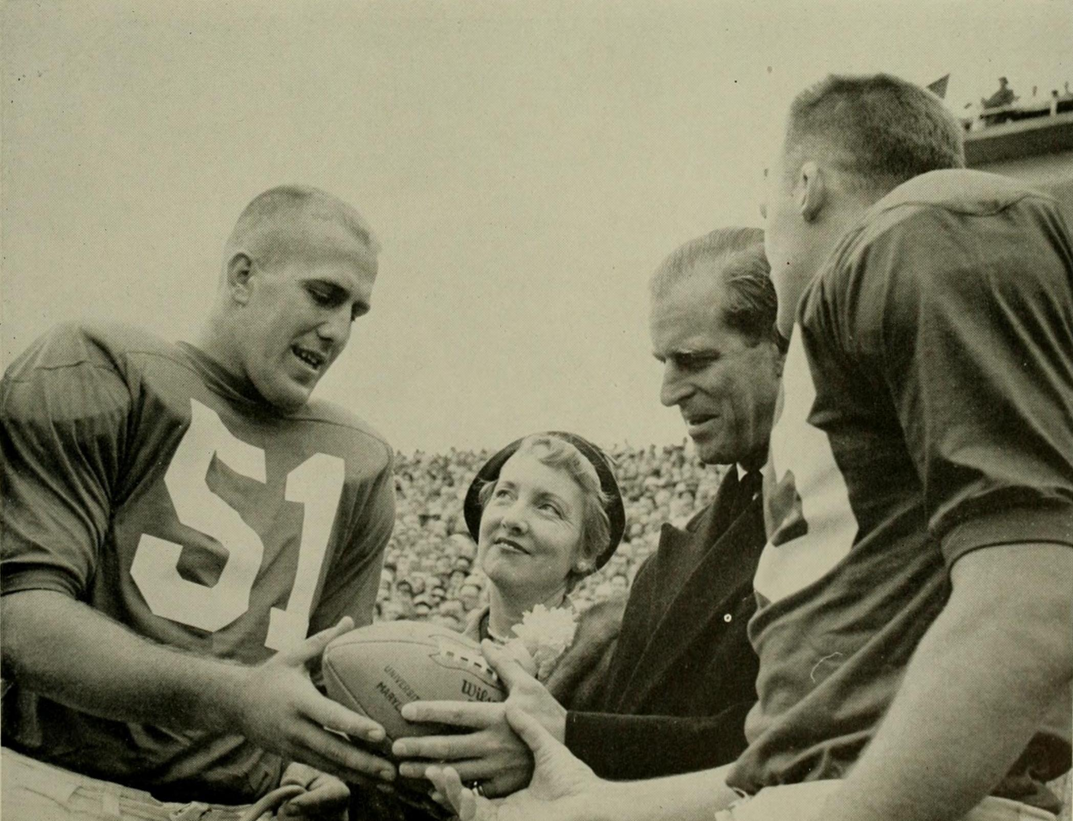 University of Maryland Terrapins football co-captains Gene Alderton (left) and Jack Healy (right) present Prince Philip a football autographed by the team prior to the game against 14th-ranked North Carolina at Byrd Stadium in College Park, Maryland on October 17, 1957.